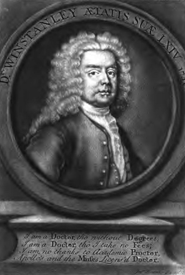 Portrait of John Winstanley (1677?–1750), British poet.